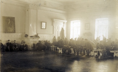 Captured Red Guard fighters after the 1918 Finnish Civil War Battle of Oulu.